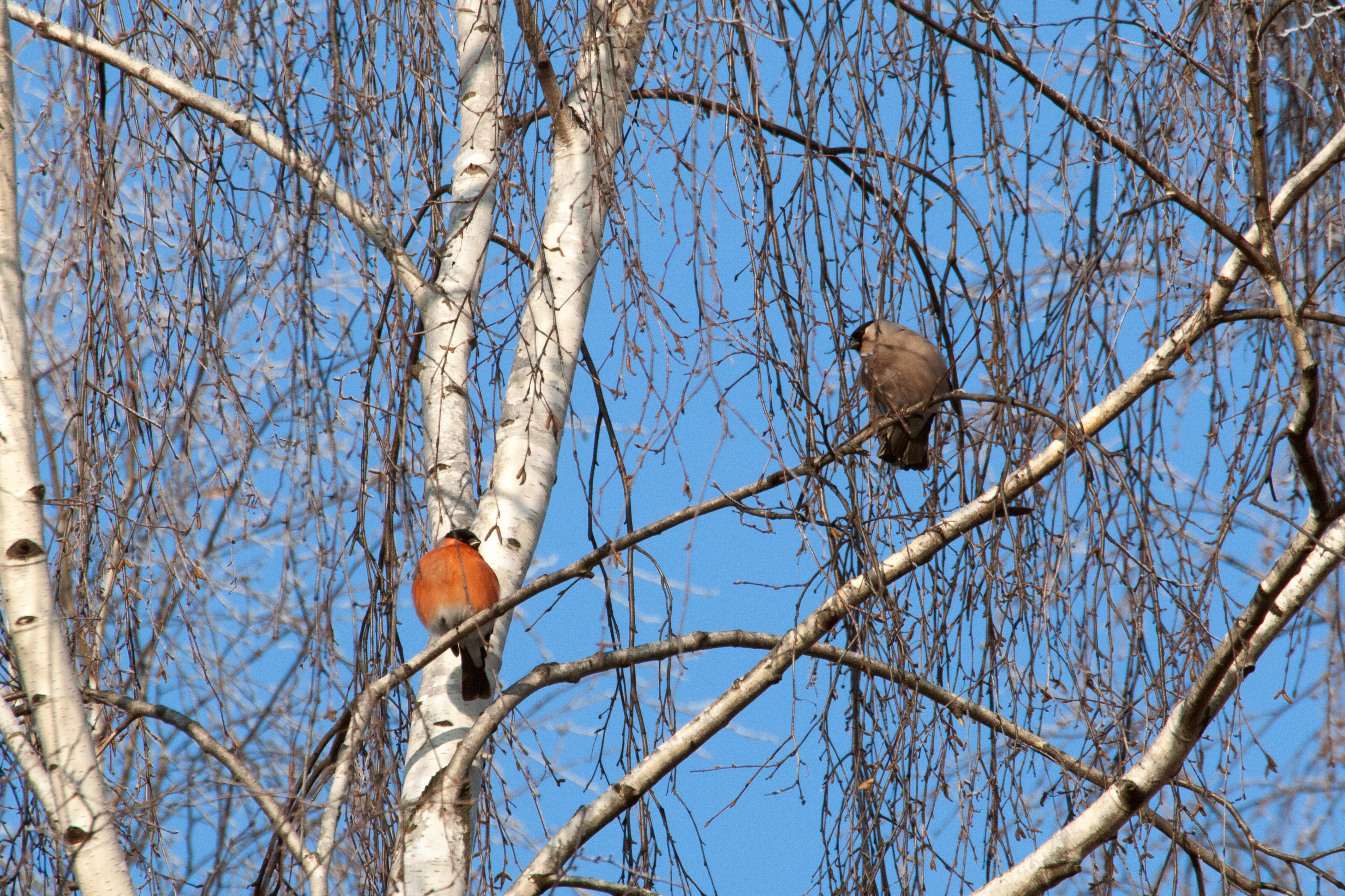 The Bullfinch, Lodz(Poland)